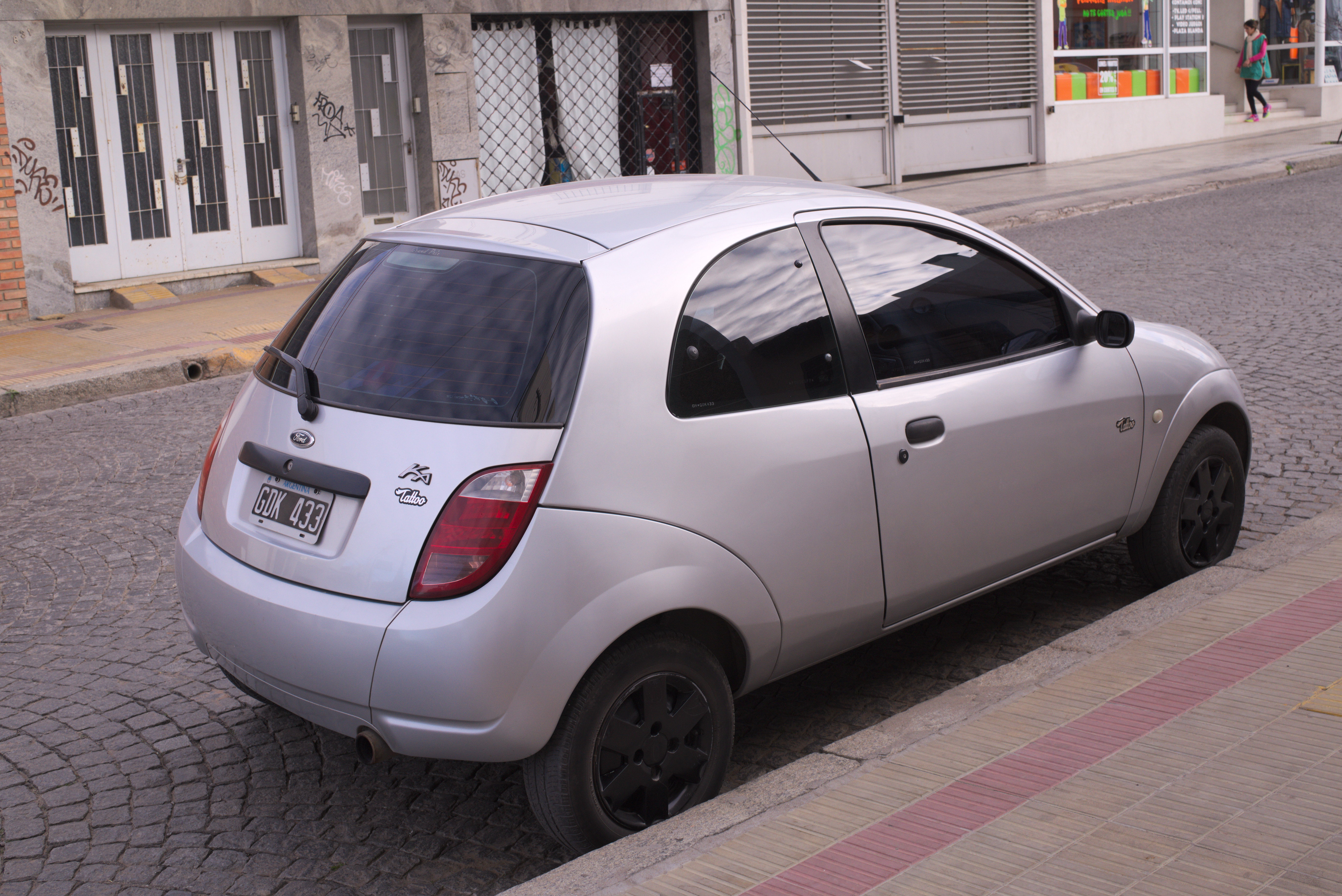 Ford Ka Tattoo parked in Tandil, Argentina